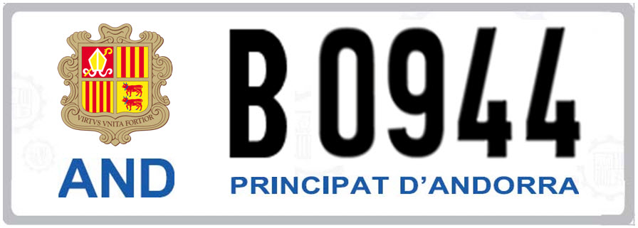 License plate from Andorra since 2011